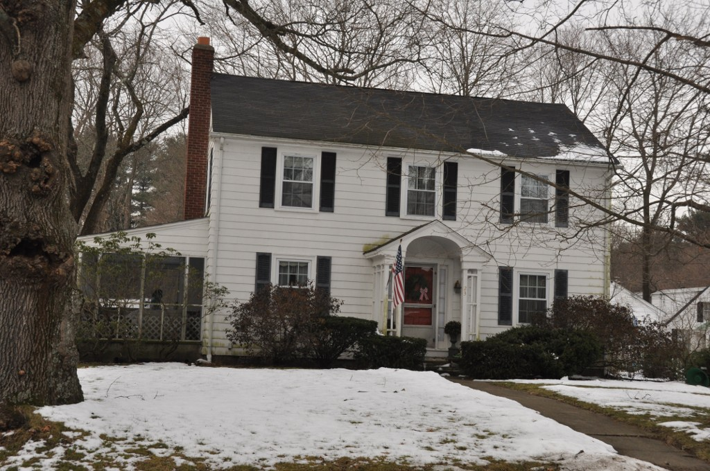 23 Seekonk Street in Norfolk, Massachusetts, part of the Sullivan's Corner Historic District.